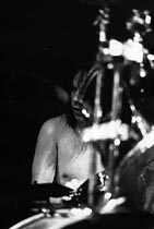 Dale Crover at work